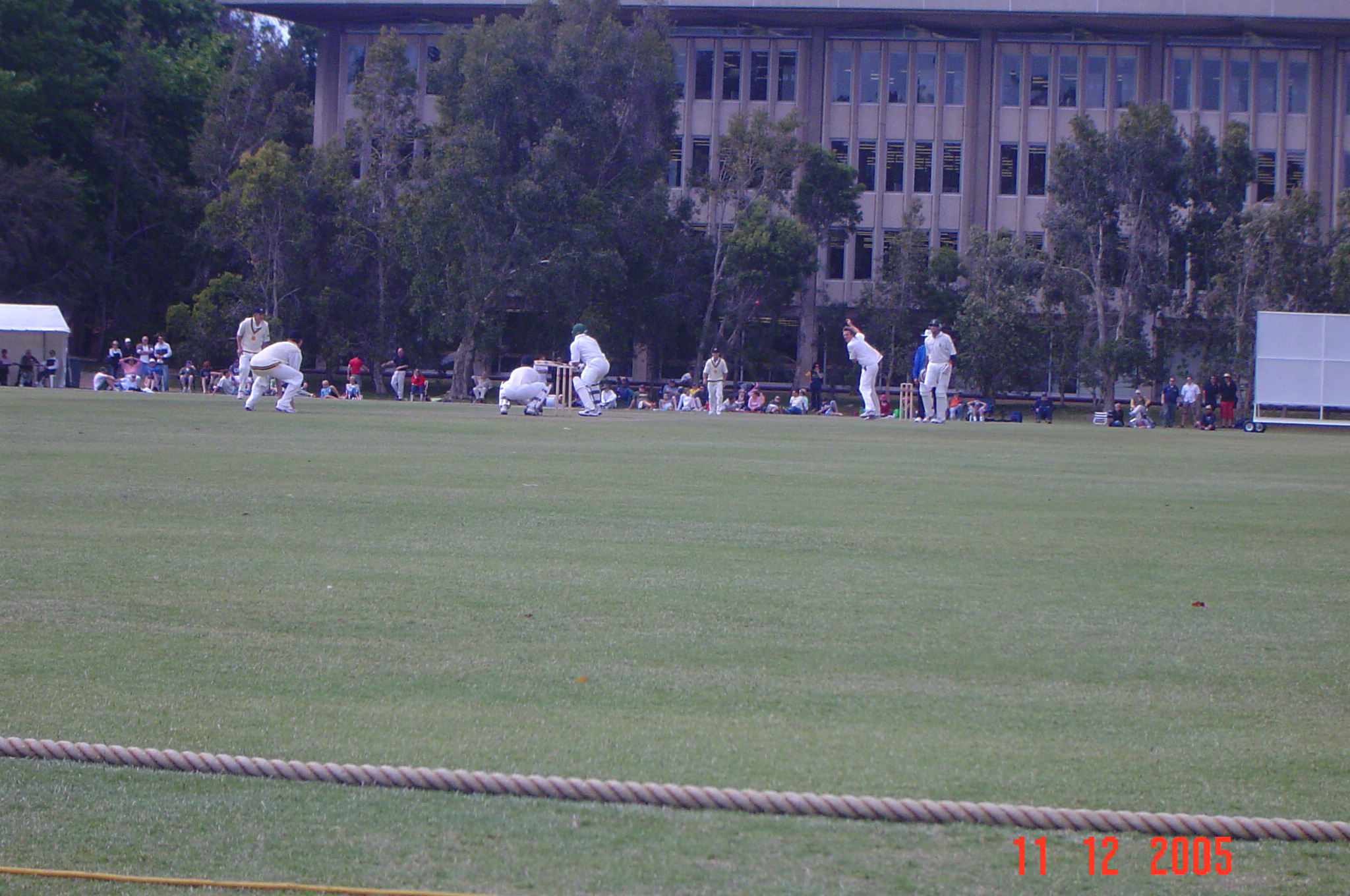 Photo at WA XI vs SA at University of Western Australia. Photo by Julian Berzins